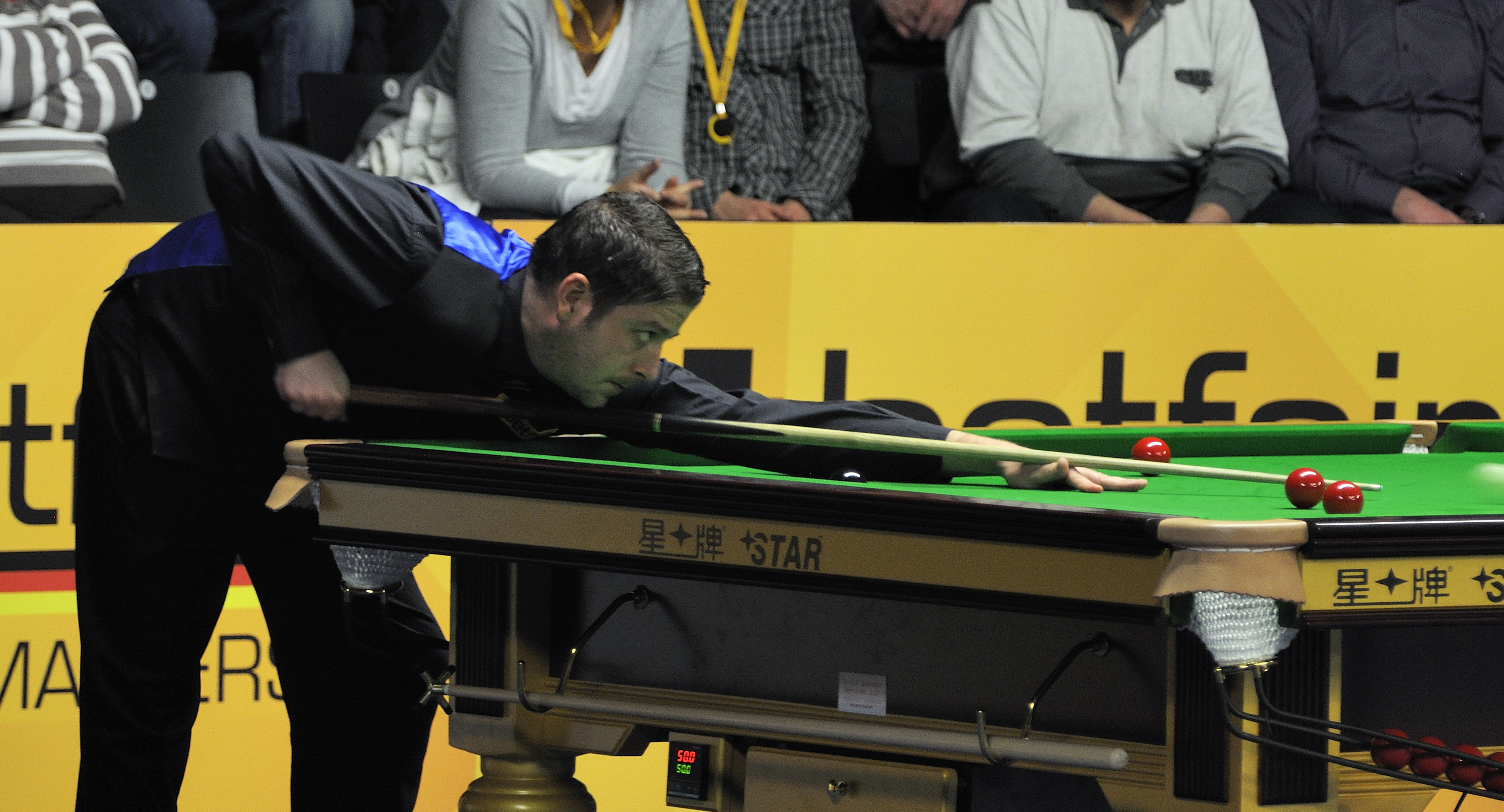 Picture taken in Berlin during the Snooker German Masters in 2013. Matthew Stevens.